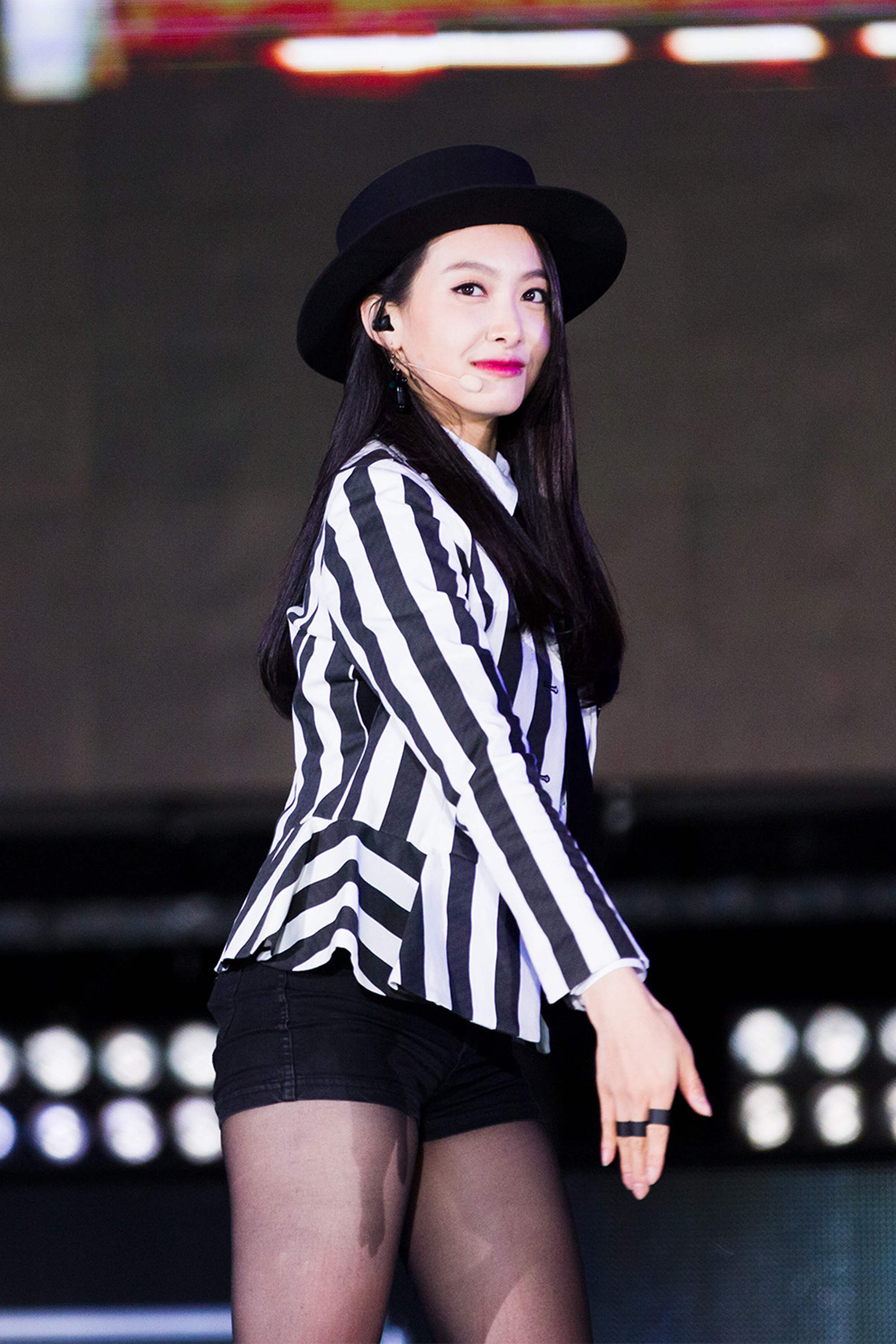 Victoria Song at Jeju K-Pop Festival on October 25, 2015.